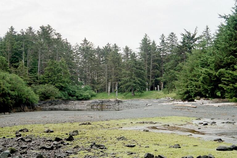 Former Haida village: SGang Gwaay (C. Baertsch/2002)